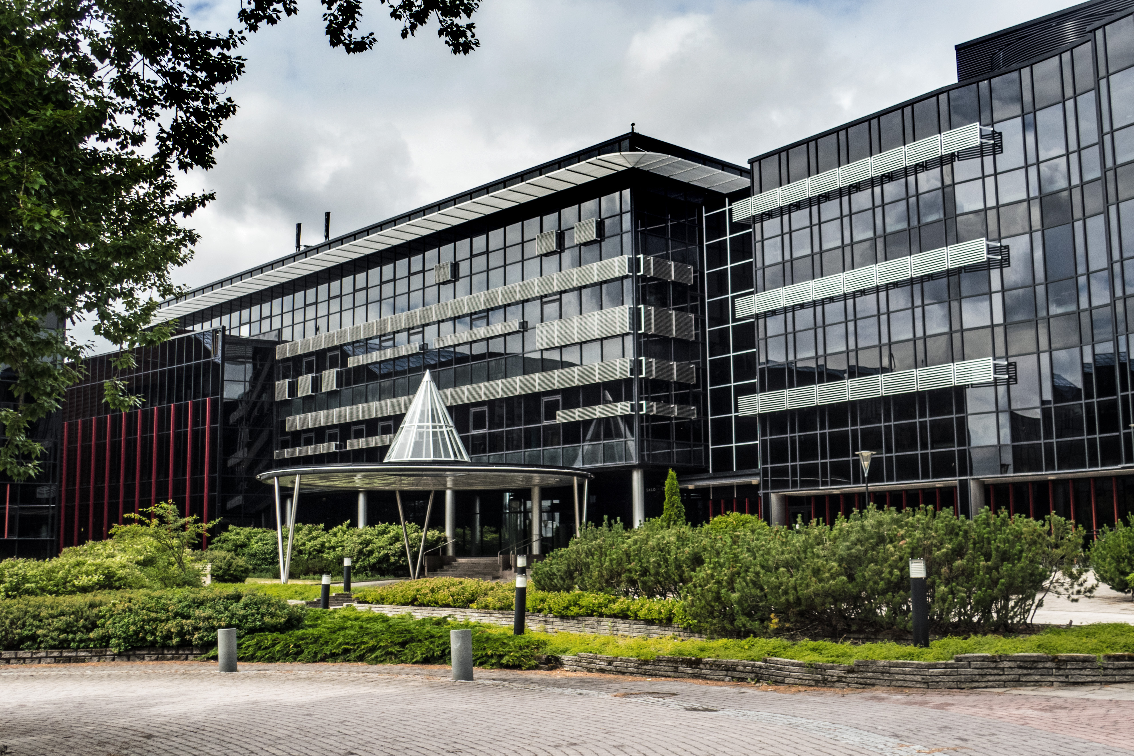 Salo IoT Campus main entrance